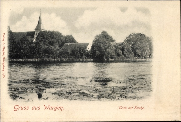 Kotelnikowo - Kaliningrad Oblast, (german Wargen im Samland), I